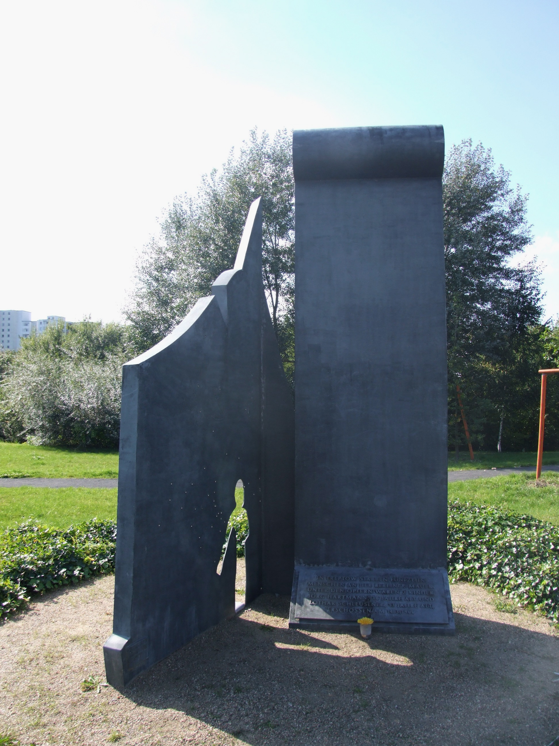 Monument to 15 victims from Berlin-Treptow, who were killed at the Berlin Wall. Location: Kiefholzstraße 333, where two boys were shot. The inscription reads: In Treptow starben fünfzehn Menschen an der Berliner Mauer. Unter den Opfern waren zwei Kinder. Jörg Hartmann, 10 Jahre alt und Lothar Schleusener, 13 Jahre alt, erschossen am 14.3.1966. sculpted by Rüdiger Roehl with Jan Skuin, 1999